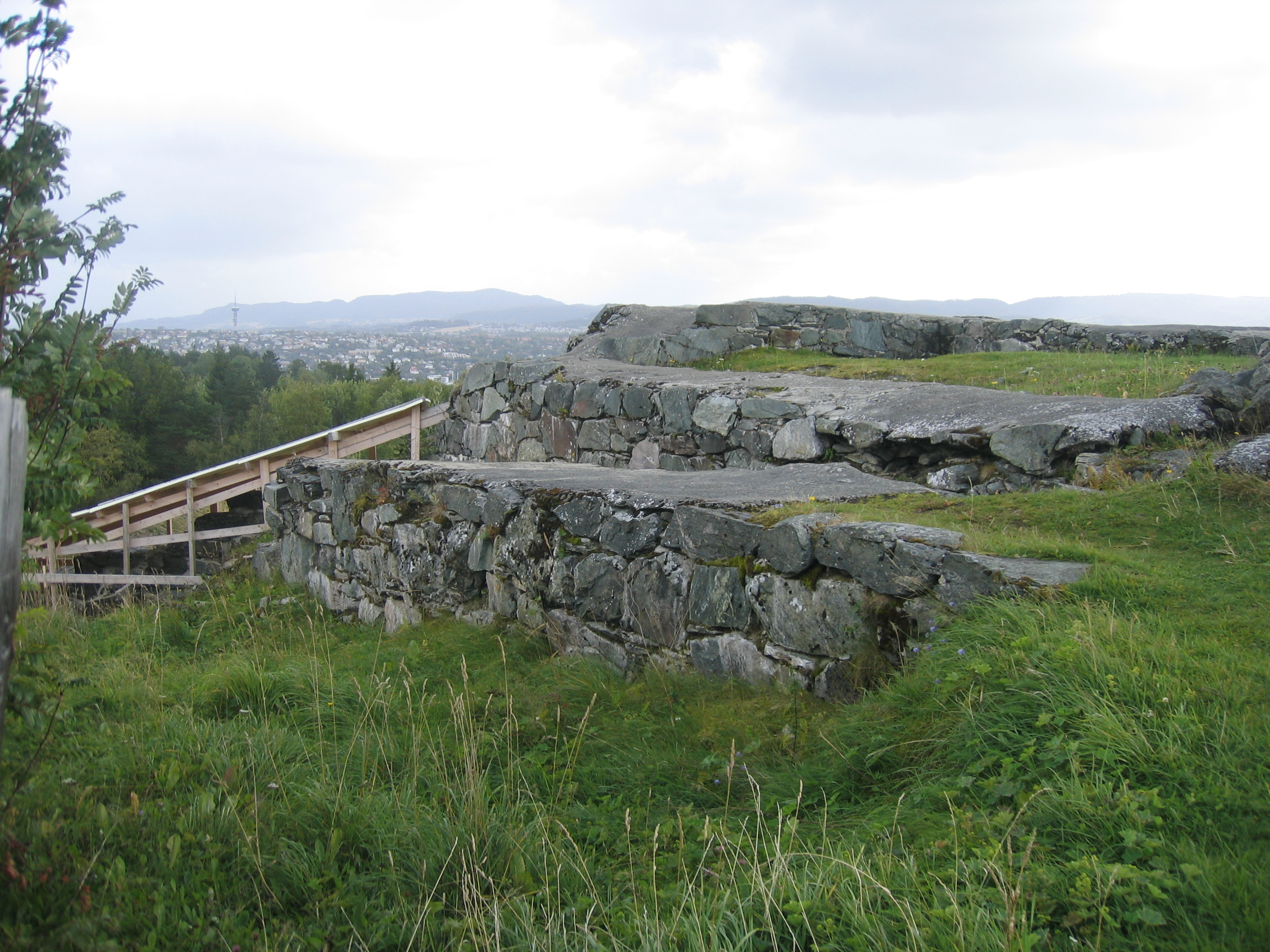 Stone foundation at Sverresborg. With Trondheim in the distance to the left.